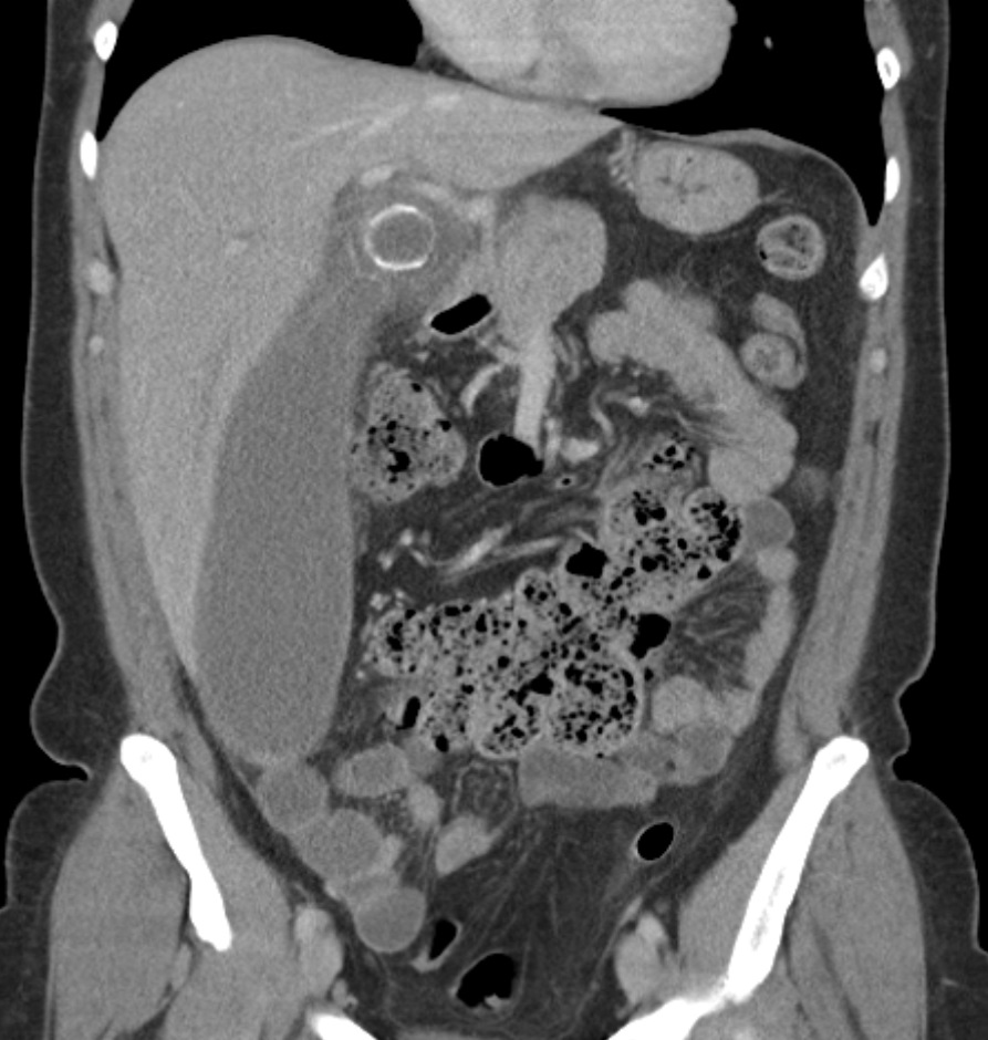 CT scan with contrast in a 44 year old woman presenting with right-sided pain indicating appendicitis. However, it shows a gallbladder (in the image's left side) with cholecystitis, causing enlargement so that the inferior part reaches the lower right part of the abdomen where the appendix can normally be found. The cholecystitis is presumably caused by a gallstone seen as a circular object in the superior part of the gallbladder.